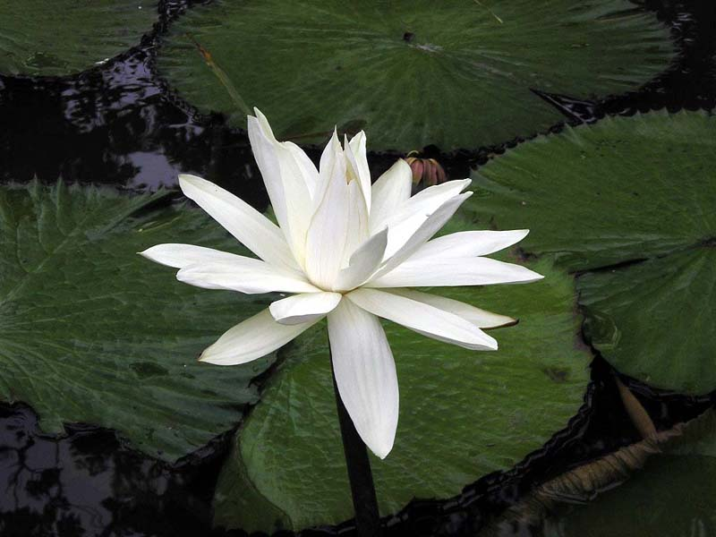 Water lily